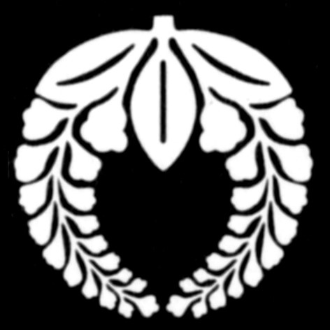 Crest of Katô at Minaguchi